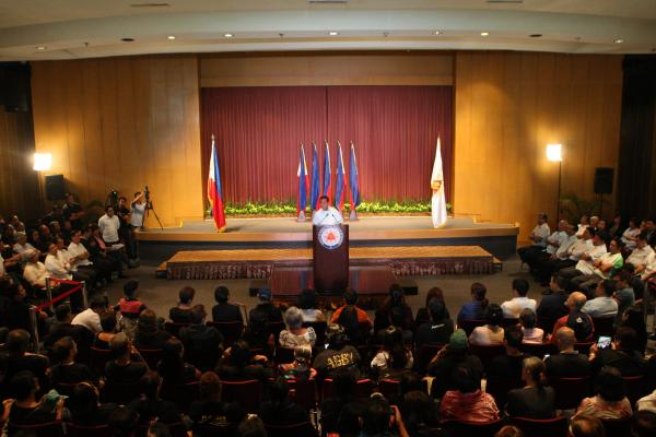 Vice President Jejomar C. Binay​ refutes Thursday afternoon (?) the allegations made against him in the ongoing Senate ​Blue Ribbon ​sub-committee hearings on the Makati City Hall Building 2.